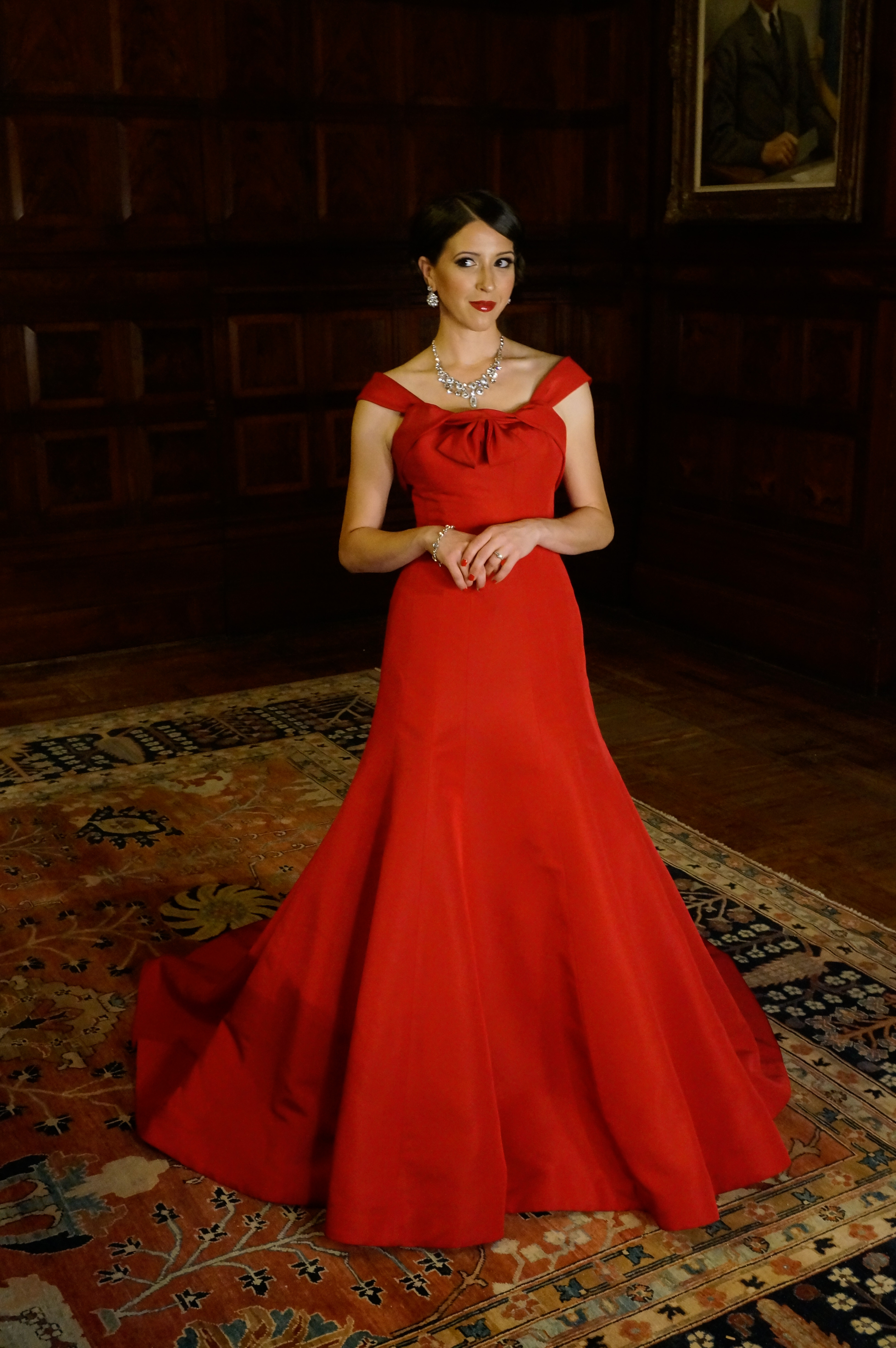 Lisette Oropesa at the Park Avenue Armory, 2016